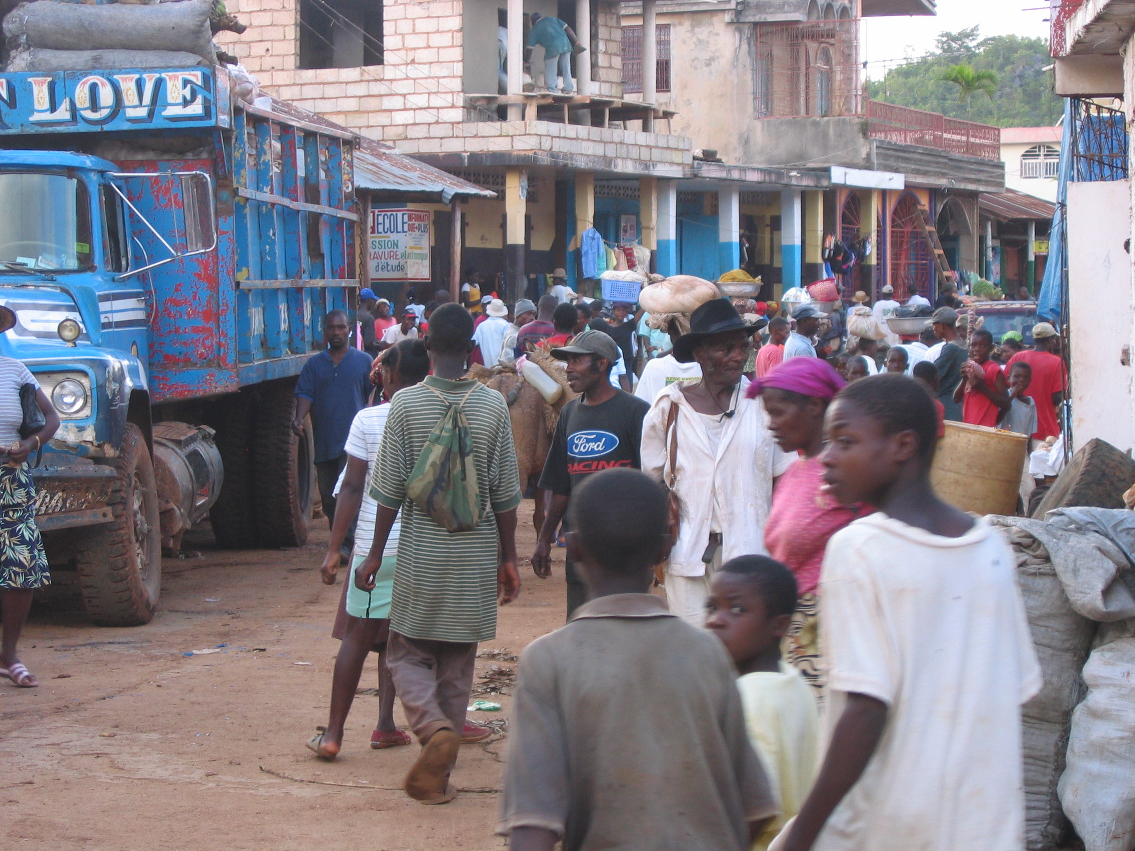 Centre of city of Jérémie, Haiti